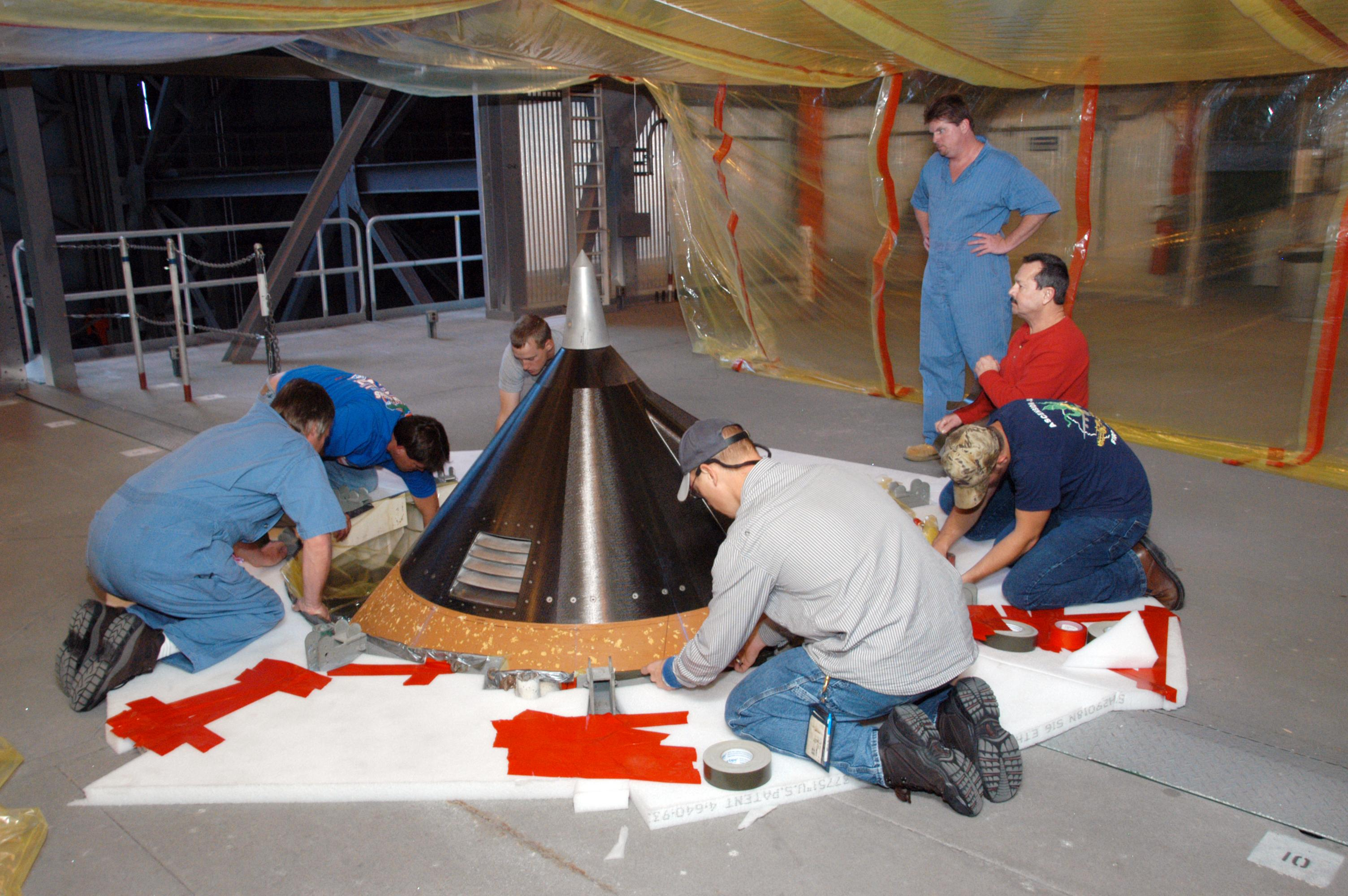 On an upper level of high bay 1 of the Vehicle Assembly Building, technicians secure protective material around the base of the nose cone of Atlantis' external tank. The nose cone will undergo repair for hail damage.